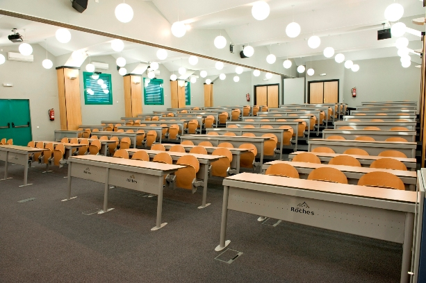 Les Roches Marbella Auditorium